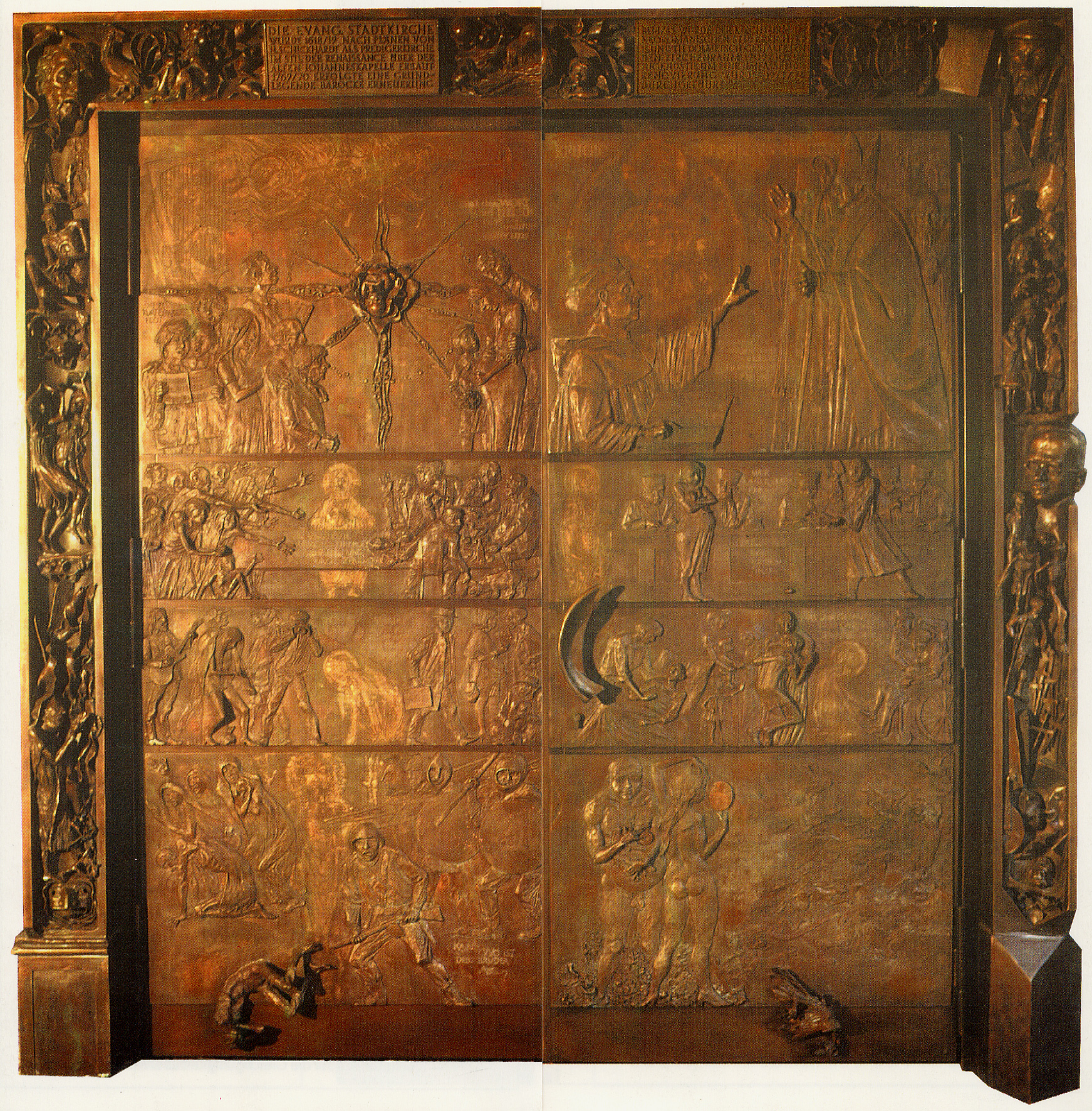 Goeppingen Town Church, Bronce Portal from 1998